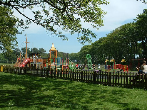 The play area of Poulsom Park in Castletown, Isle of Man.